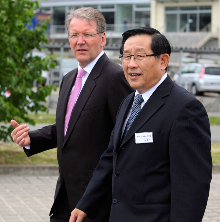 Prof. Dr. Wan Gang and Dr. Juergen M. Geissinger, Schaeffler AG